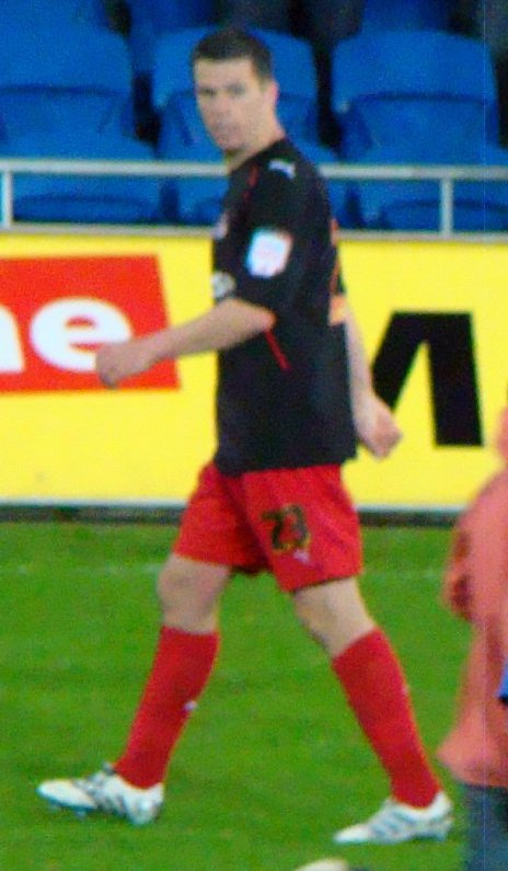 17/05/11 - Cardiff V Reading, Championship Semi-Final 2nd Leg, Cardiff City Stadium, Cardiff, Wales